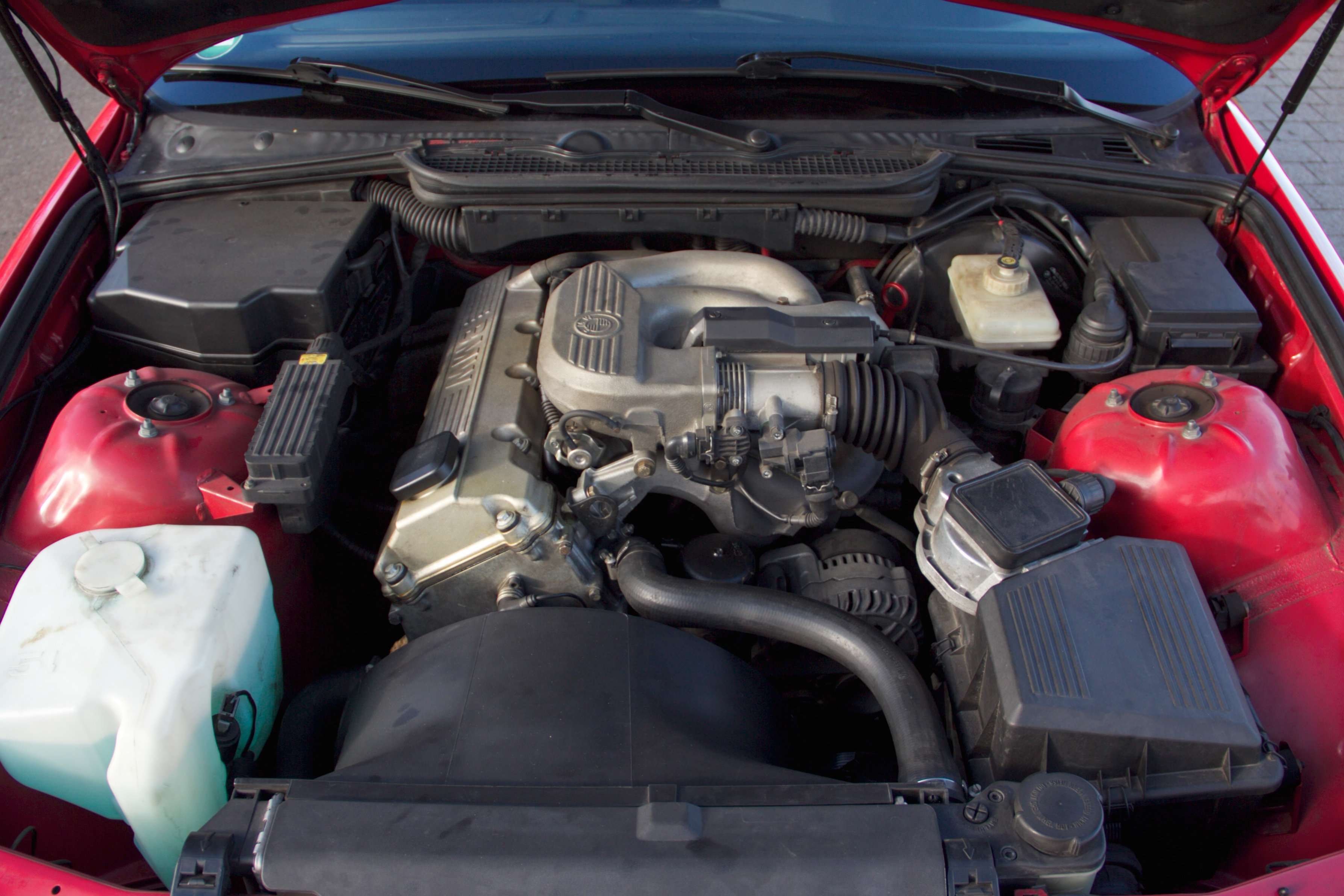 BMW M43 B16 engine in a BMW 316i compact (E36) from 1996.